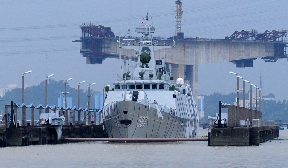 Type 056 corvette 597 QinZhou in Huangpu Shipyard